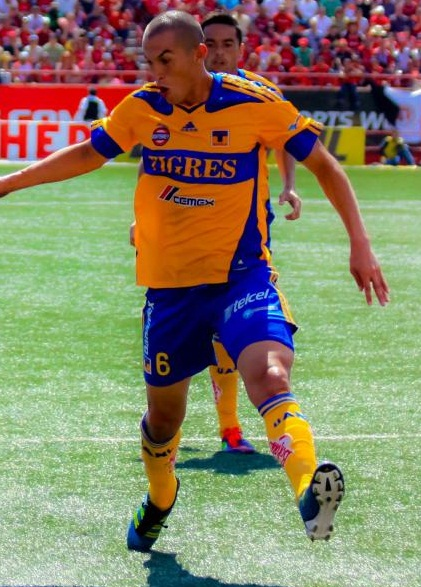 Mexican player Jorge Torres Nilo